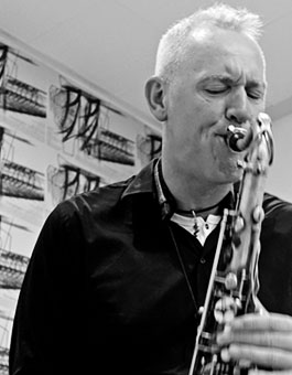 Petter Wettre in Aarhus, Denmark 2014